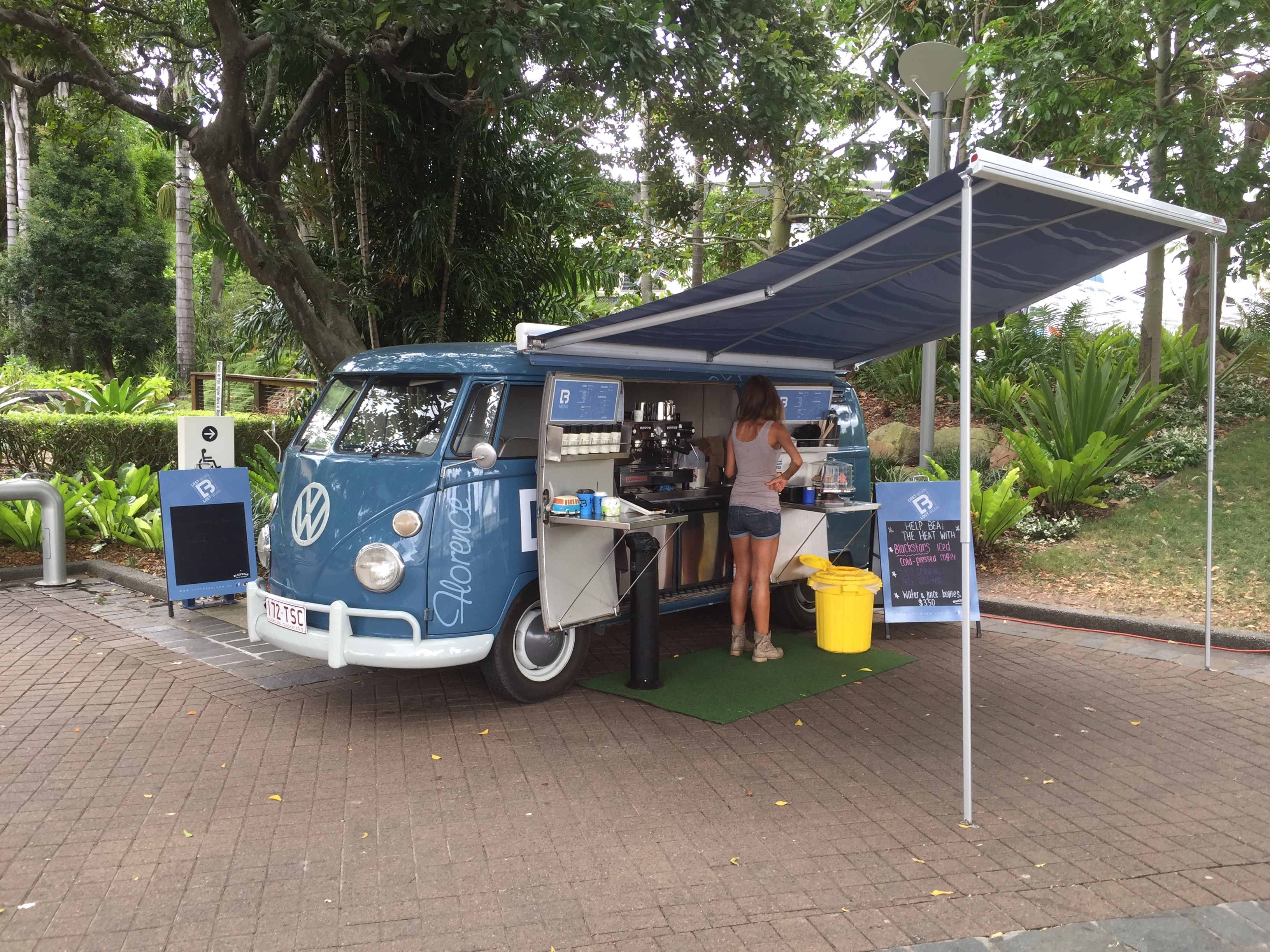 Mobile cafe in South Bank Parklands, Brisbane